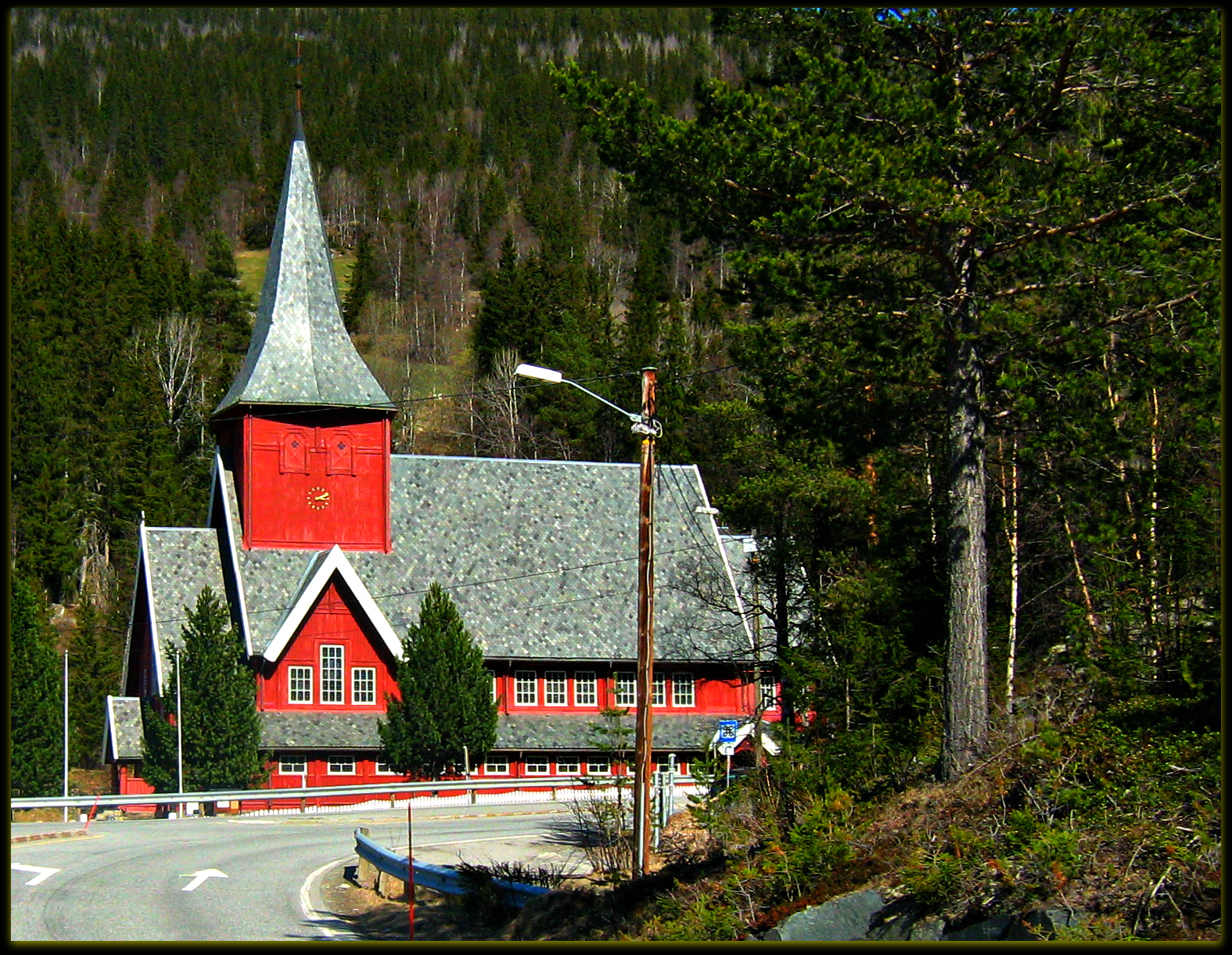 The wooden church of Hagafoss was built in 1924. It is on the list of protected buildings. Architect: O.Stein.